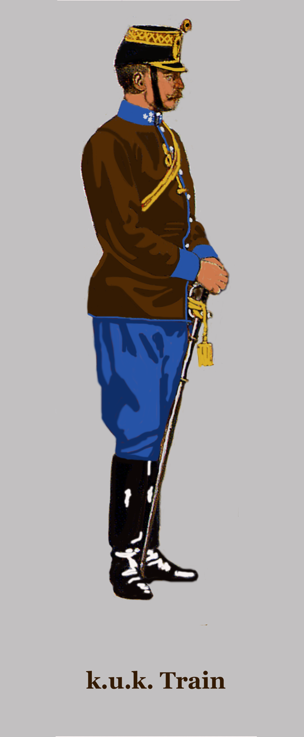 Captain of the k.u.k. Supply in Paradedress as worn after 1908